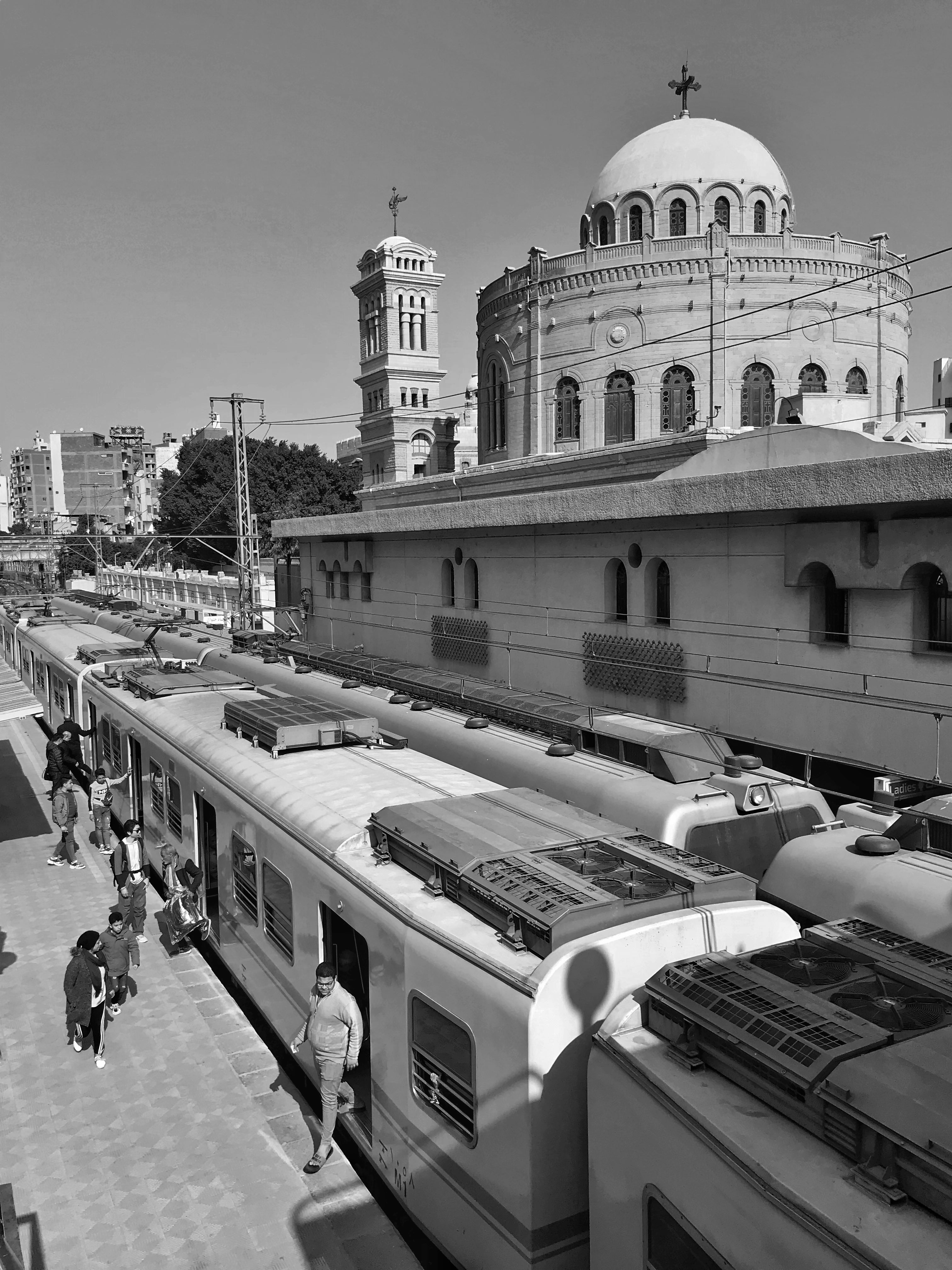 Passengers get off a train at El Mar Girgis station in Cairo. This is an image with the theme "Africa on the Move or Transport" from: Egypt